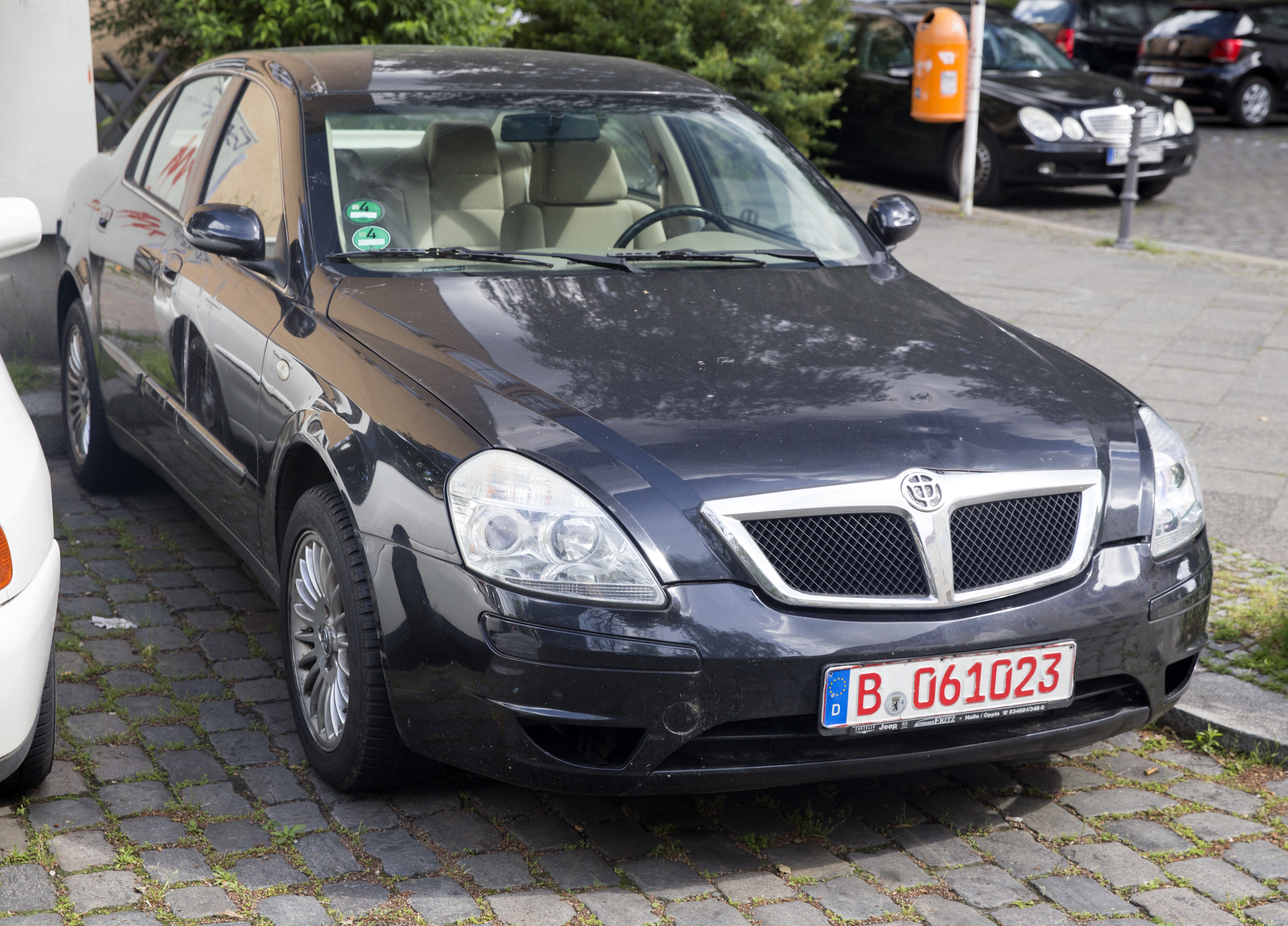 A Brilliance BS6 in Berlin, on short-term dealer plates.